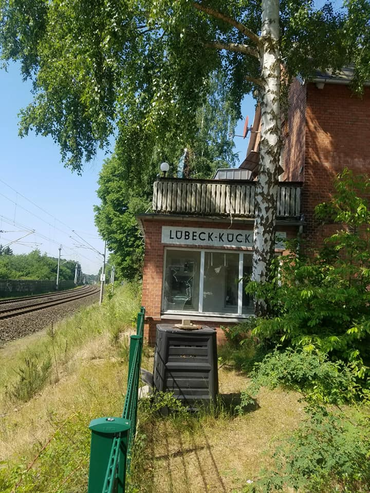 The Lübeck-Kücknitz railway station